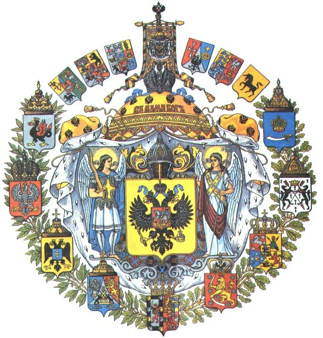 Coat of arms of the Russian Empire (1882), by Baron B. Koehne.